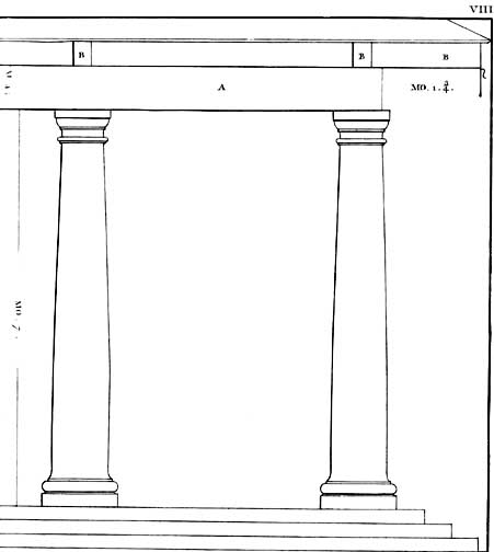 Engraving from 16th century text, p. 17